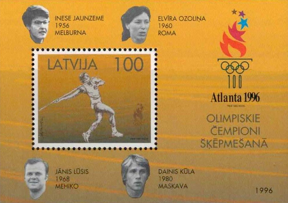 Stamp of Latvia